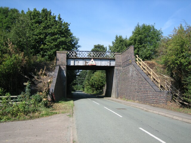 Railway Bridge near Broadway. Railway bridge south of Broadway on the former Cheltenham to Stratford-on-Avon line. Looking north-west.